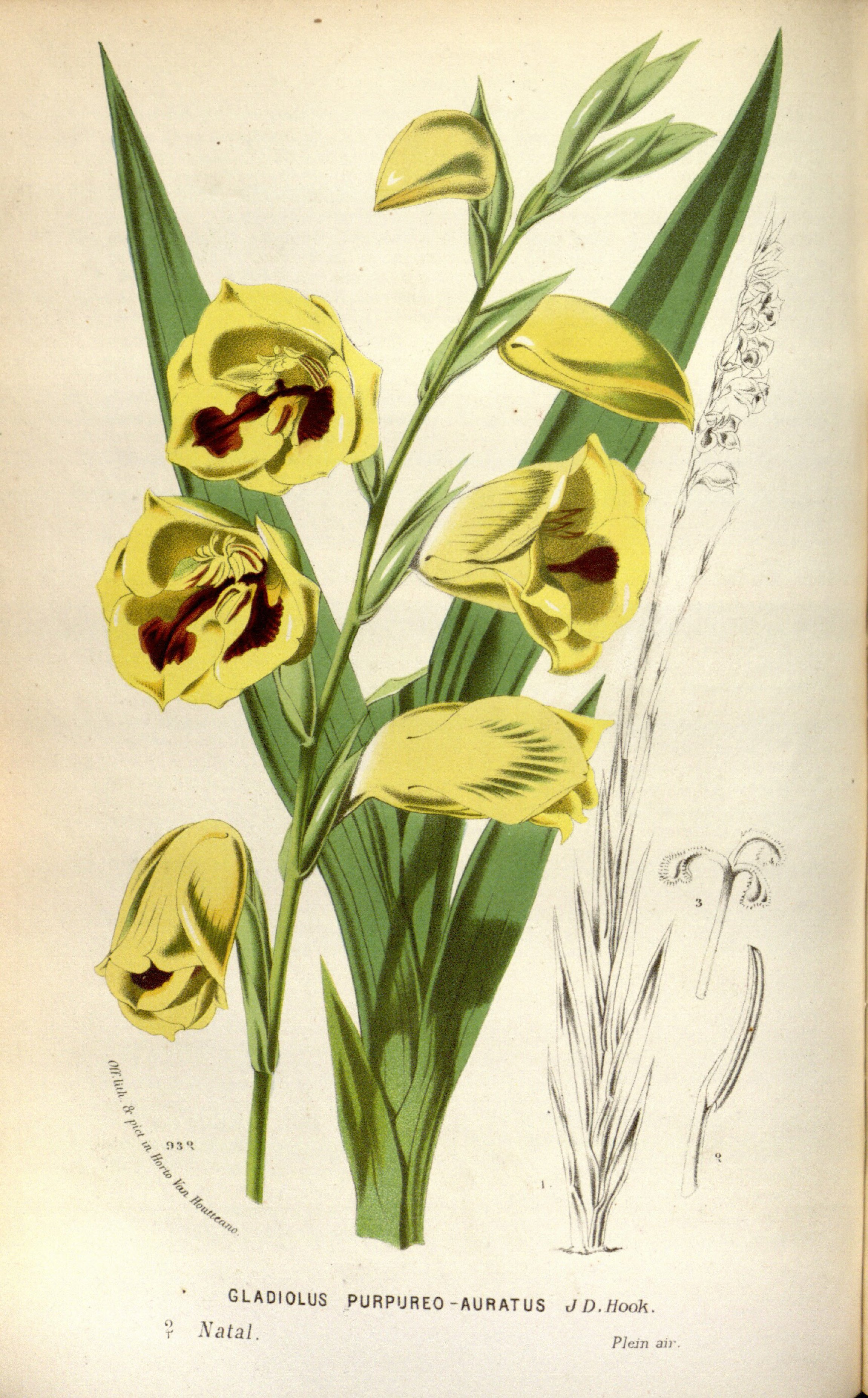 Gladiolus papilio, as Gladiolus purpureoauratus